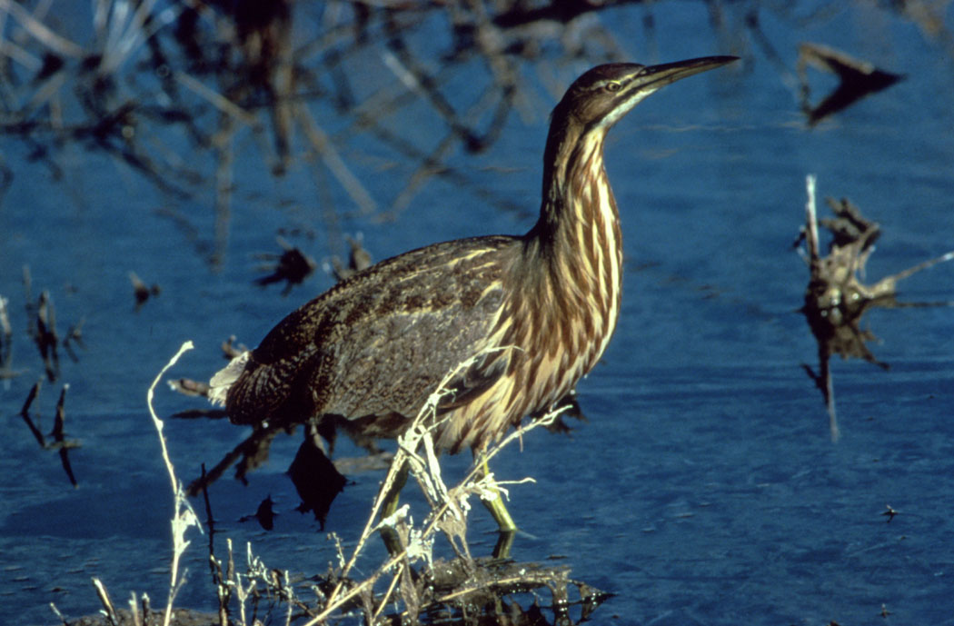 American Bittern (Botaurus lentiginosus) WO4399-006